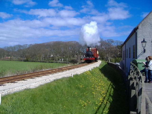 Steam Railway, Castletown A half minute or so after leaving Castletown station on the journey to Port Erin.